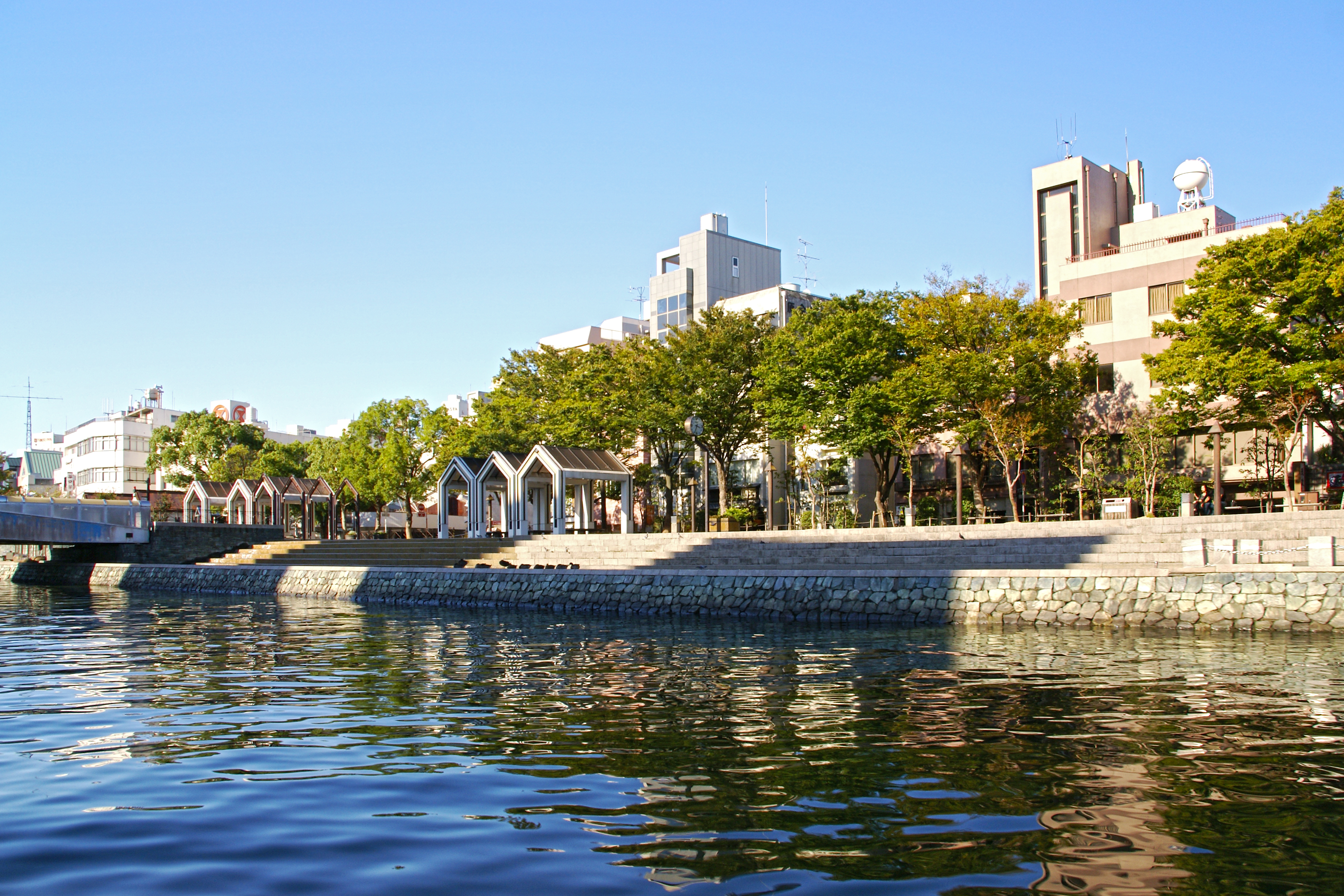 Shinmachi-gawa riverside park in Tokushima, Tokushima prefecture, Japan